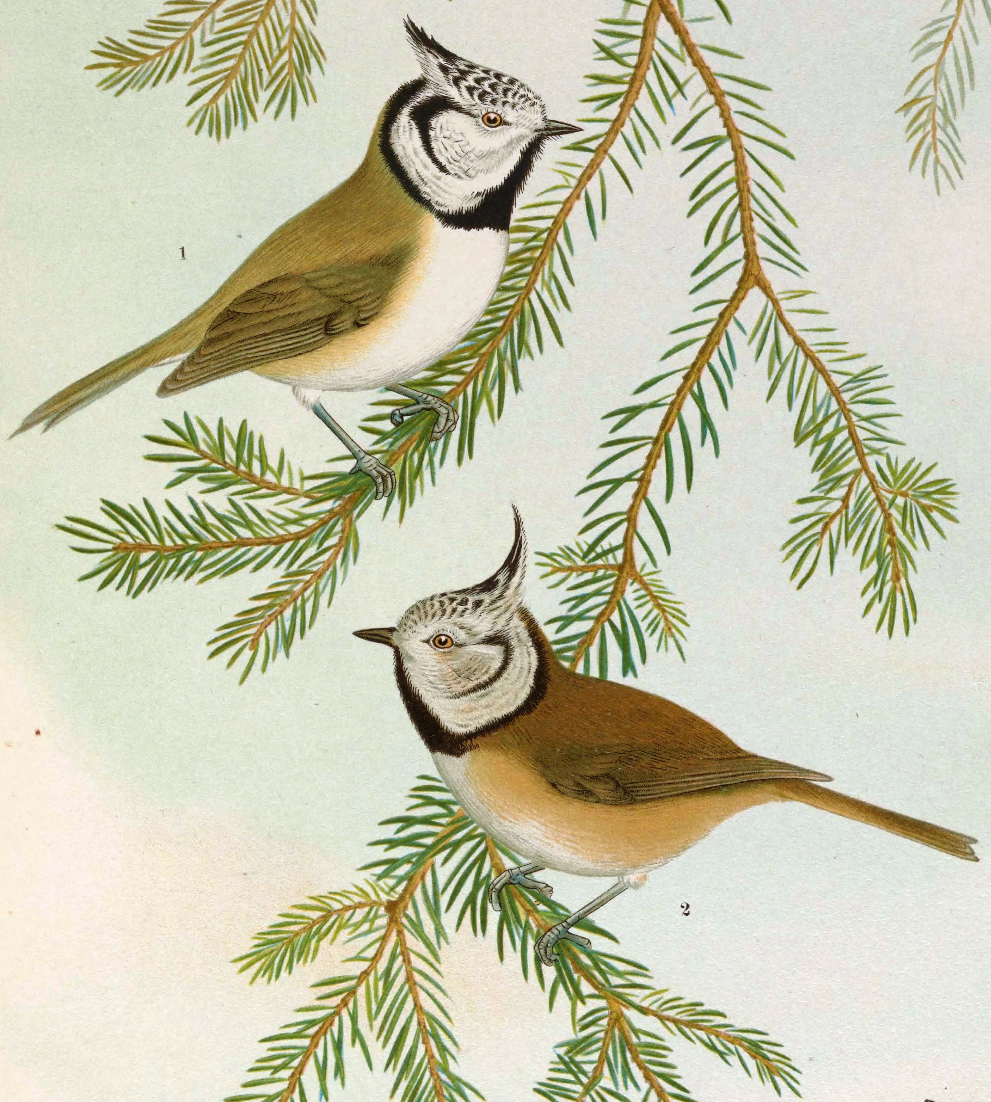 Parus cristatus Naumann